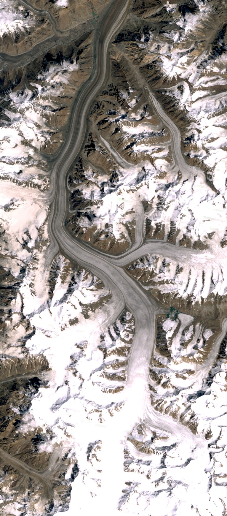 Fedchenko Glacier, image LandSat in near natural colors, 30m pixel resolution